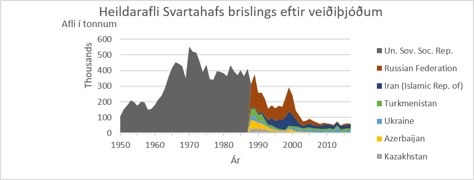 Heildarafli svartahafs brislings eftir veiðiþjóðum